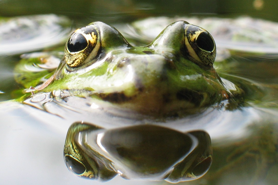 Common Water Frog (Rana esculenta)